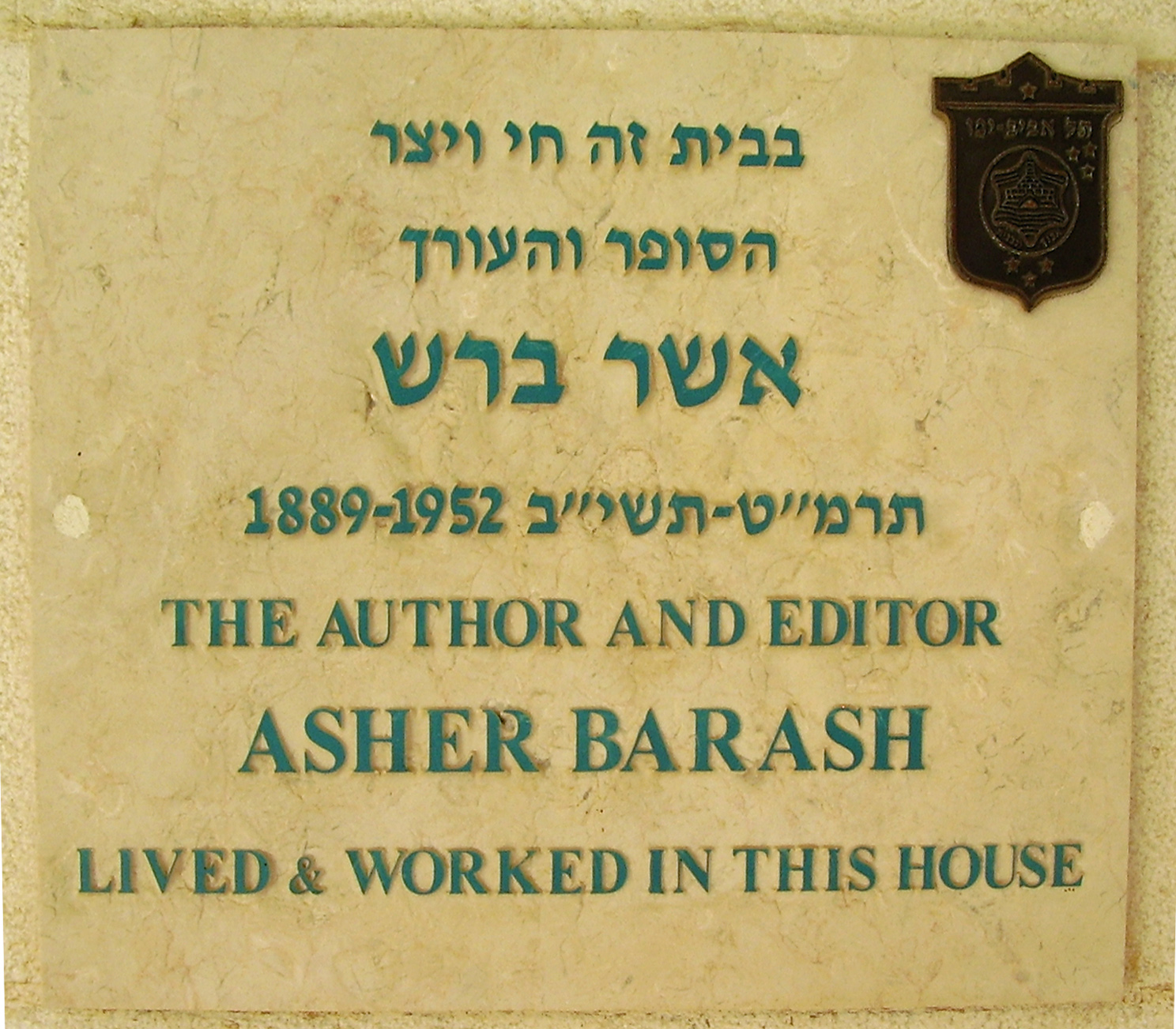 memorial plaque on the autor asher barash house in tel aviv לוחית זיכרון על ביתו של הסופר אשר ברש ברח' מנדלי 15 בתל אביב